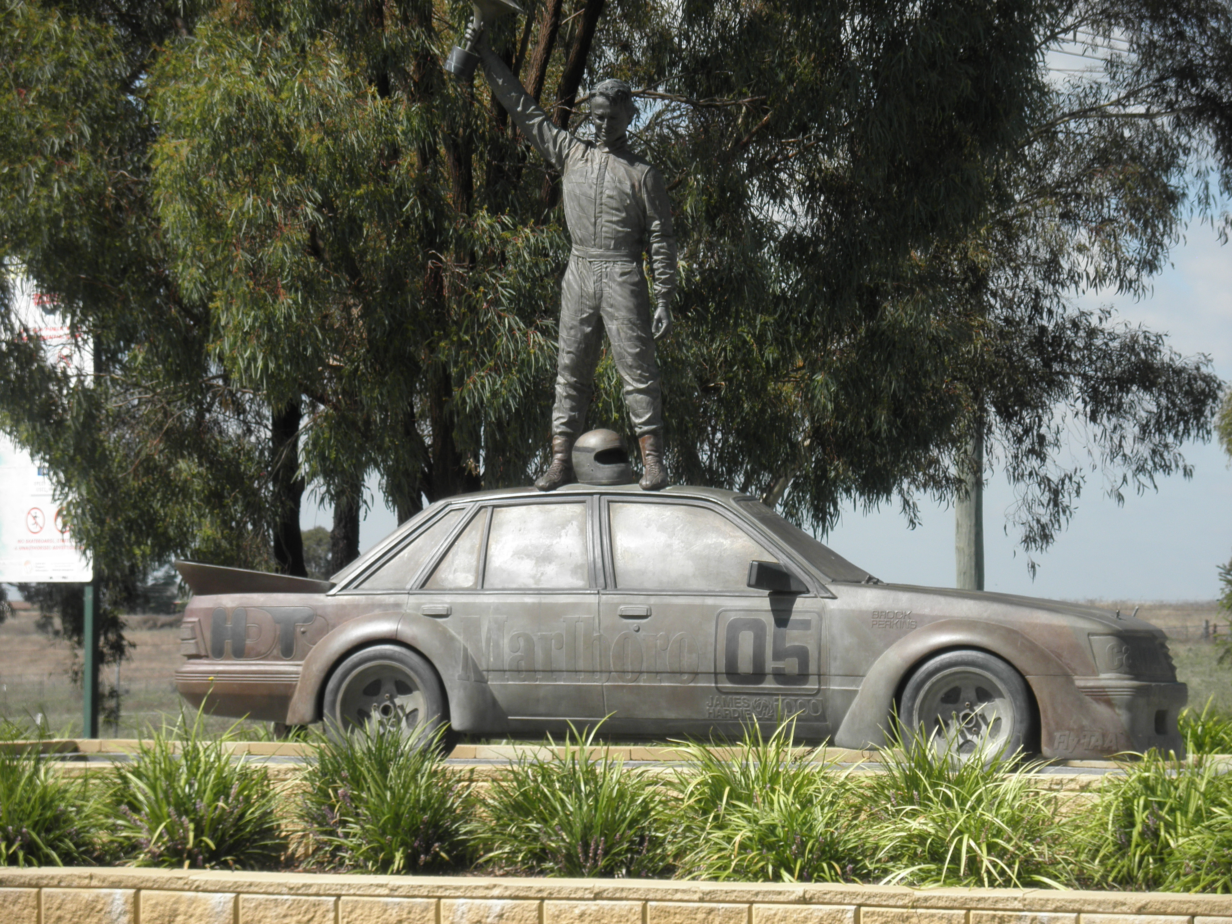 Memorial to motor racing driver Peter Brock located at National Motor Racing Museum, Bathurst, New South Wales, Australia